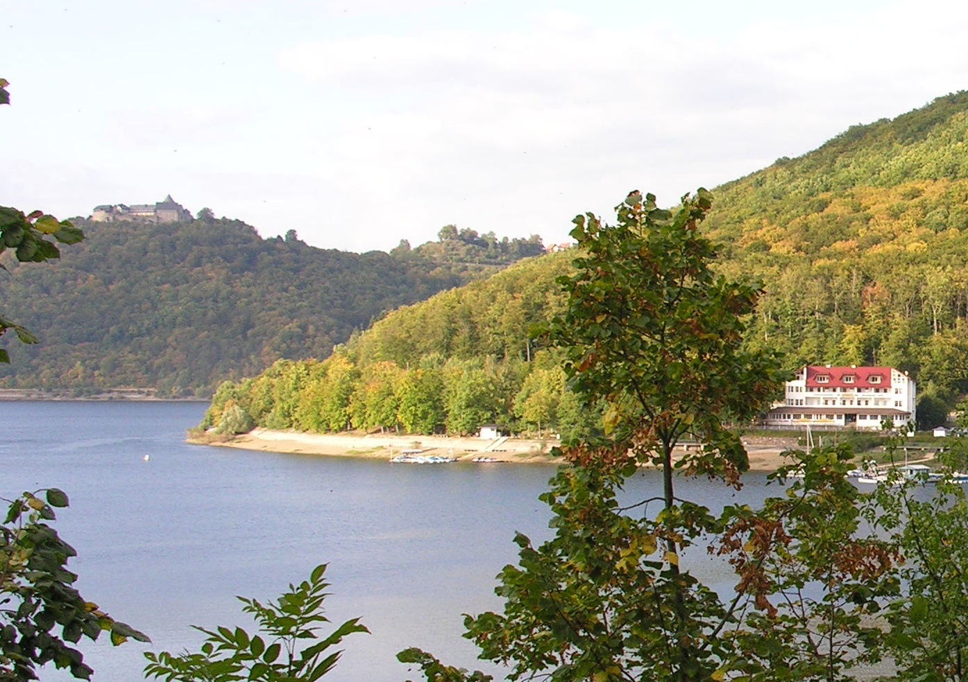 Edersee reservoir Hessen Hessen - Foto Wolfgang Pehlemann